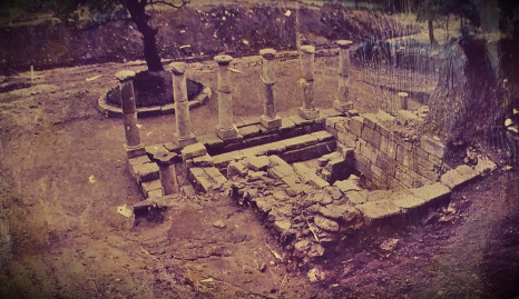 Horizon site exscavated Starosel BG